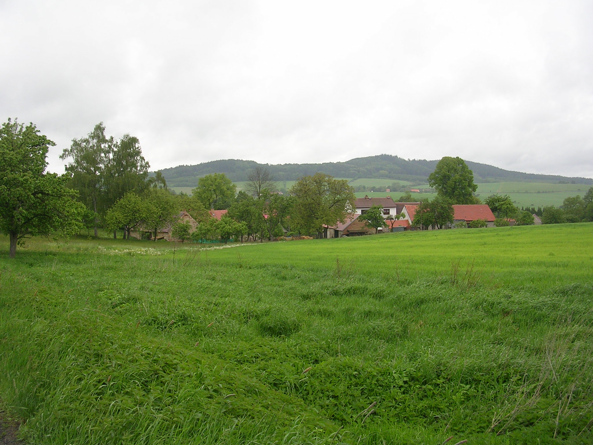 Neustupov-Broumovice, Benešov District, Central Bohemian Region, the Czech Republic.